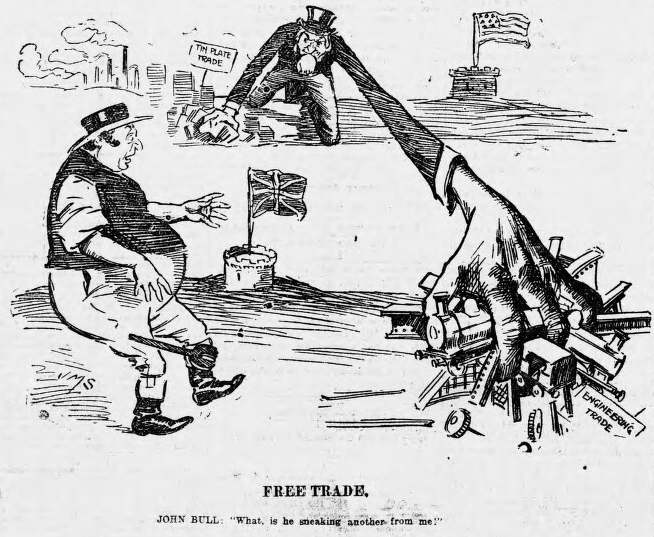 Political cartoon by JM Staniforth. John Bull, a personification of Great Britain, is alarmed as Uncle Sam takes more British engineering skill across the Atlantic to support US growth.